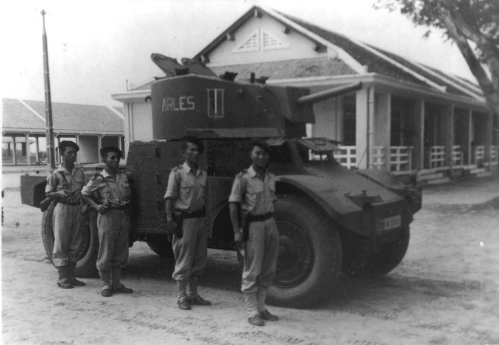 South Vietnamese armored reconnaissance unit stands inspection in 1952 at Thu Duc Officers School. The vehicle is a 1939 French Panhard armored car.